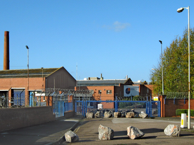 Innovia factory - closed for business Former cellophane factory, bought by an American rival and closed soon after (in 2005)